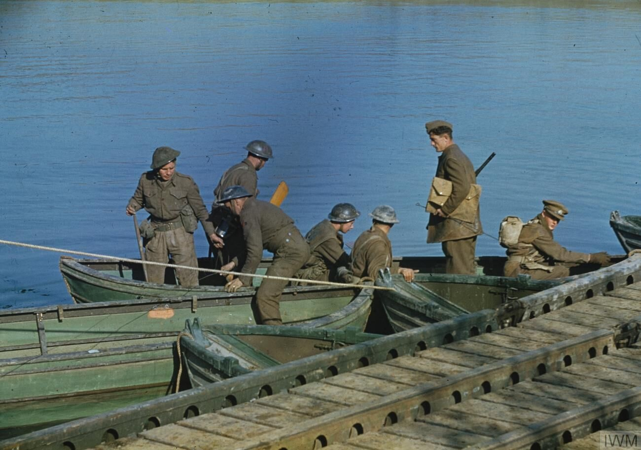 The Crossing of the Garigliano River by the Fifth Army, Lauro, Italy, 19 January 1944 Royal Engineers in assault boats embark for the opposite bank to repair the last two sections of the pontoon bridge knocked out by enemy fire.